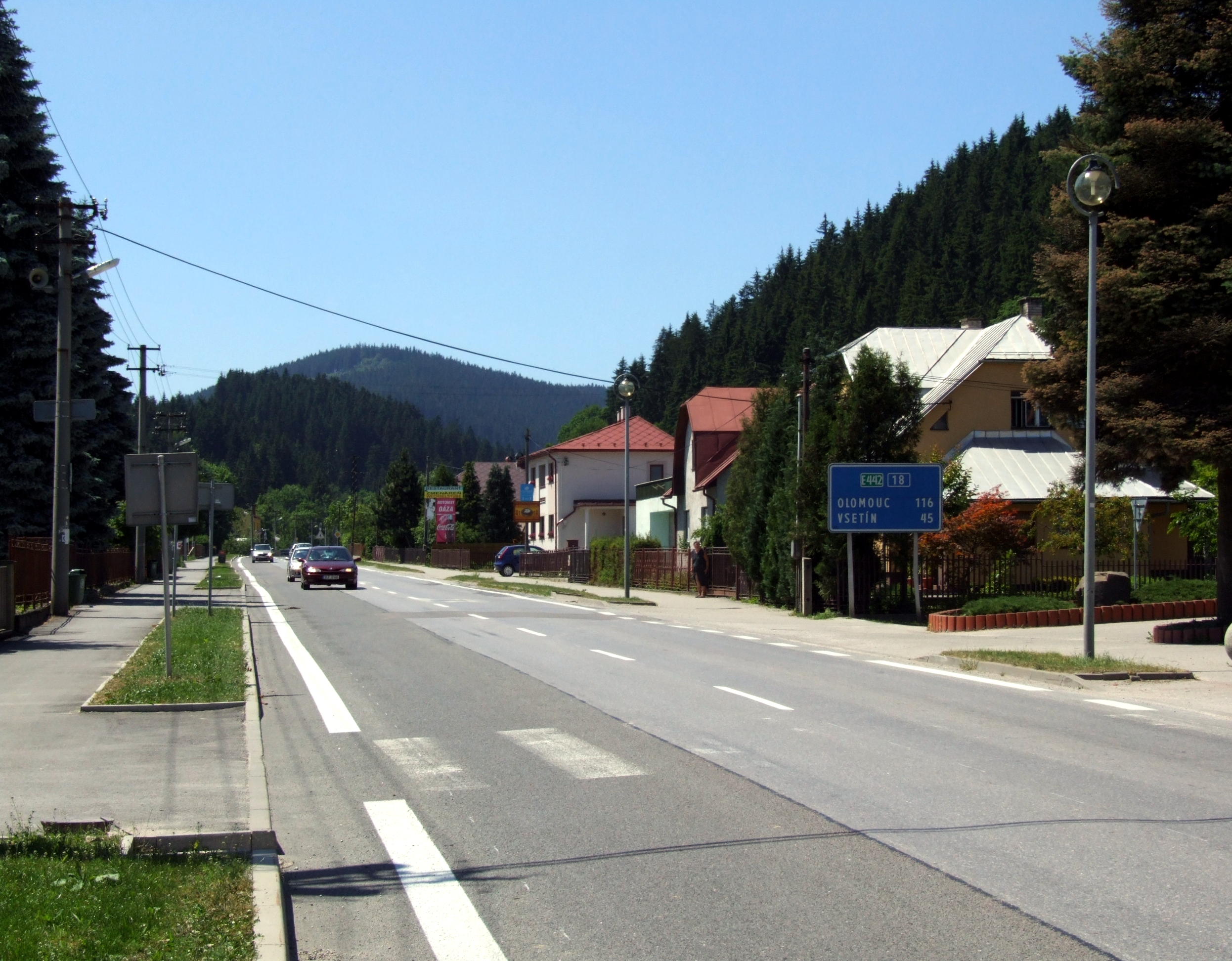 Makov, Slovakia - main street Česky: Makov (okres Čadca) - hlavní silnice